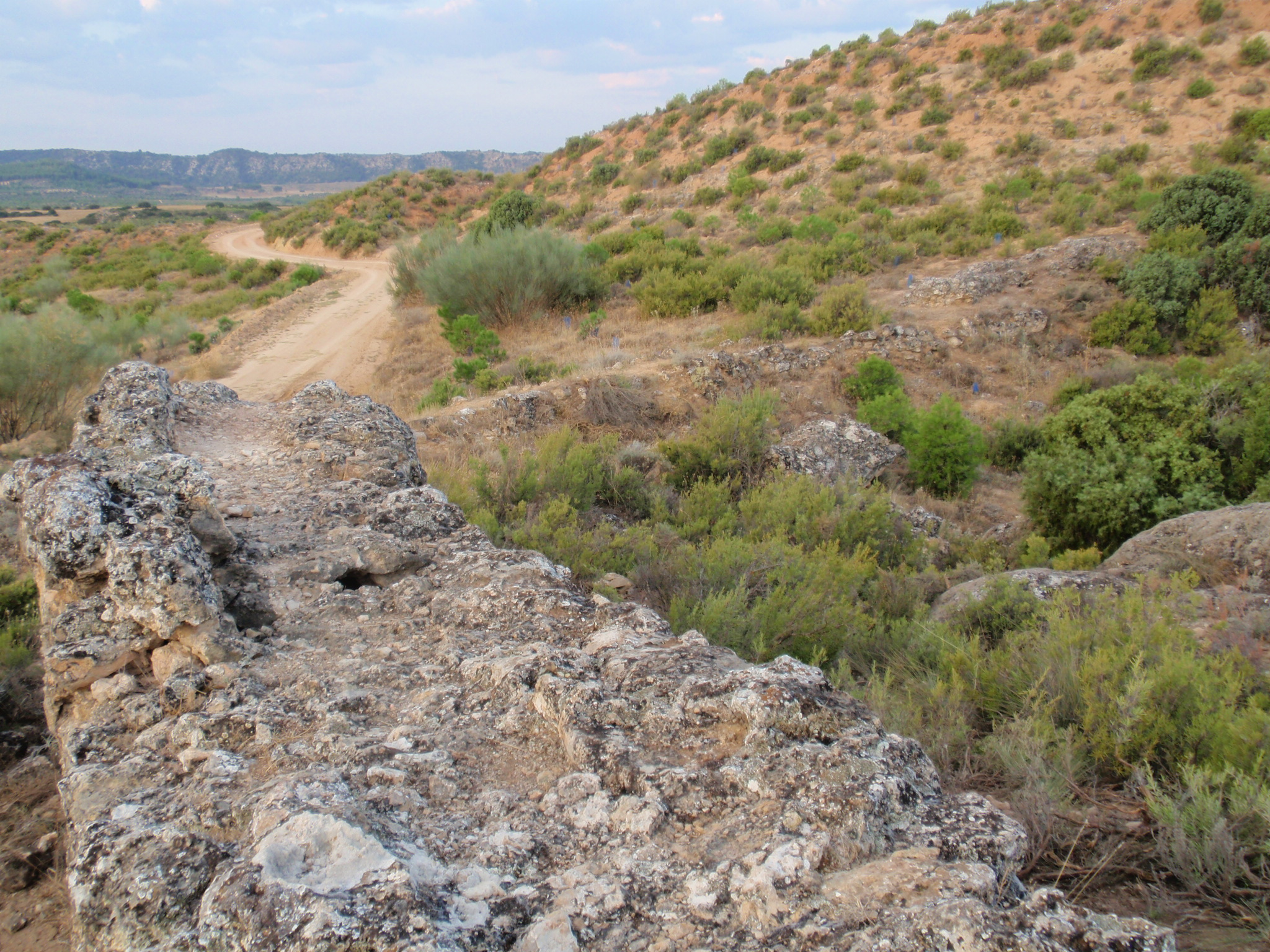 Standing remains of the Reccopolis aqueduct